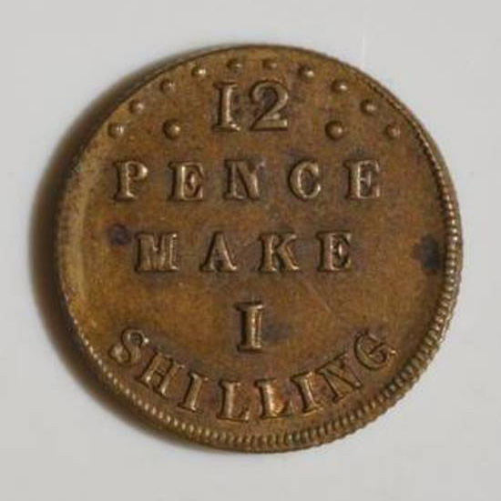 Victorian copper alloy toy coin, now worn and/or corroded. The obverse depicts the head of a young Prince Albert, and bears the words H.R.H. ALBERT P.W. The reverse reads 2 / SIXPENCE / MAKE / 1 / SHILLING in five lines. It has a milled edge and weighs 1.3grams, with a diameter of 13.44mm, thickness 1.71mm. This particular toy coin probably dates between 1841 and 1850. It cannot be earlier than the creation of Prince Albert Edward (later Edward VII) as Prince of Wales in December 1841, and may have been produced to commemorate this event. The example images represent a similar toy coin inscribed 12 PENCE MAKE 1 SHILLING. See also LANCUM-F3E7CE.